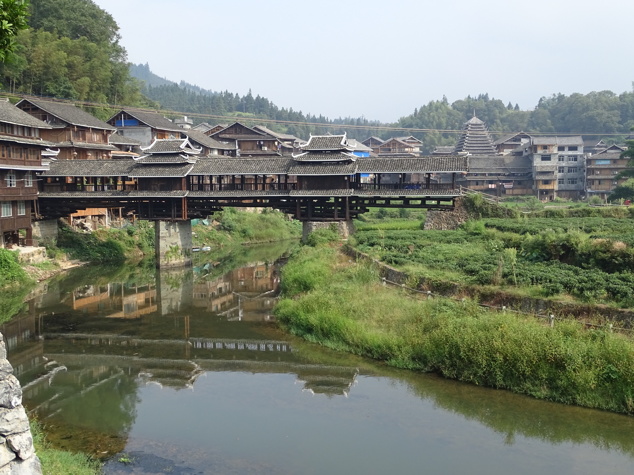 Dong dorp en brug Guangxi